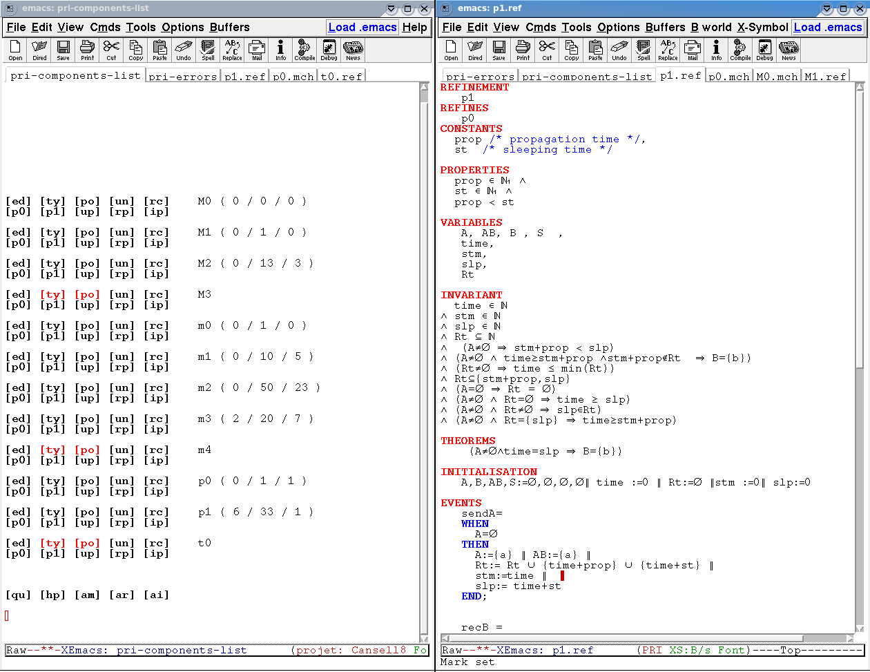 A screenshot of the Click'n'Prove application showing a view of a project.